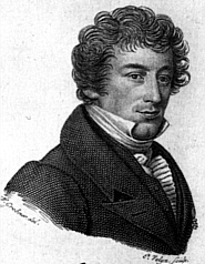 Jacob van Lennep (1802-1868), dutch writer.